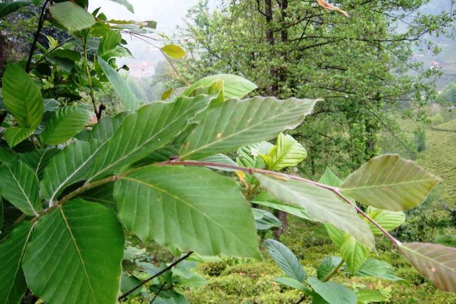 Fagus orientalis